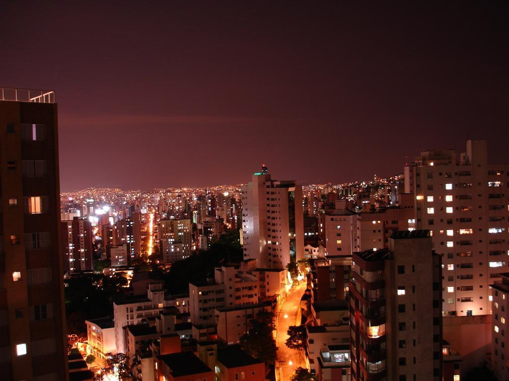 Sion neighborhood in Belo Horizonte city, Brazil.